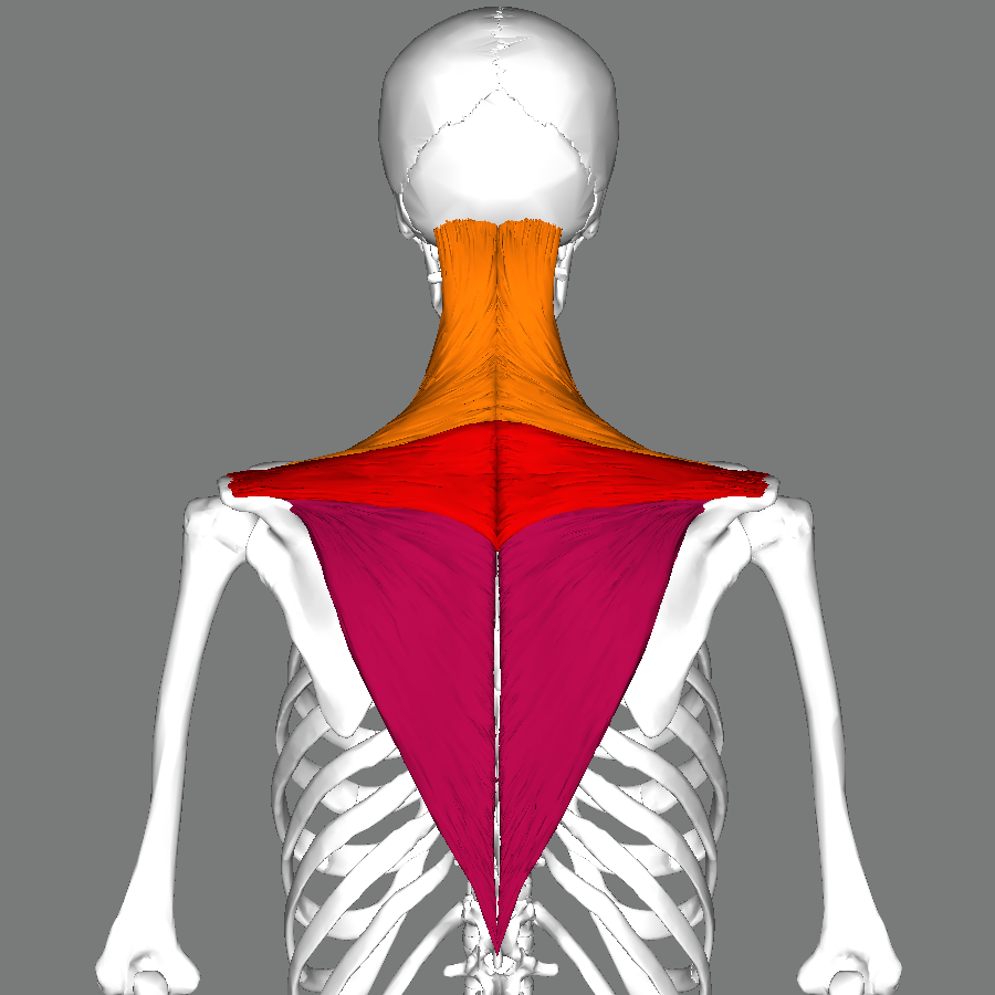 Trapezius muscle